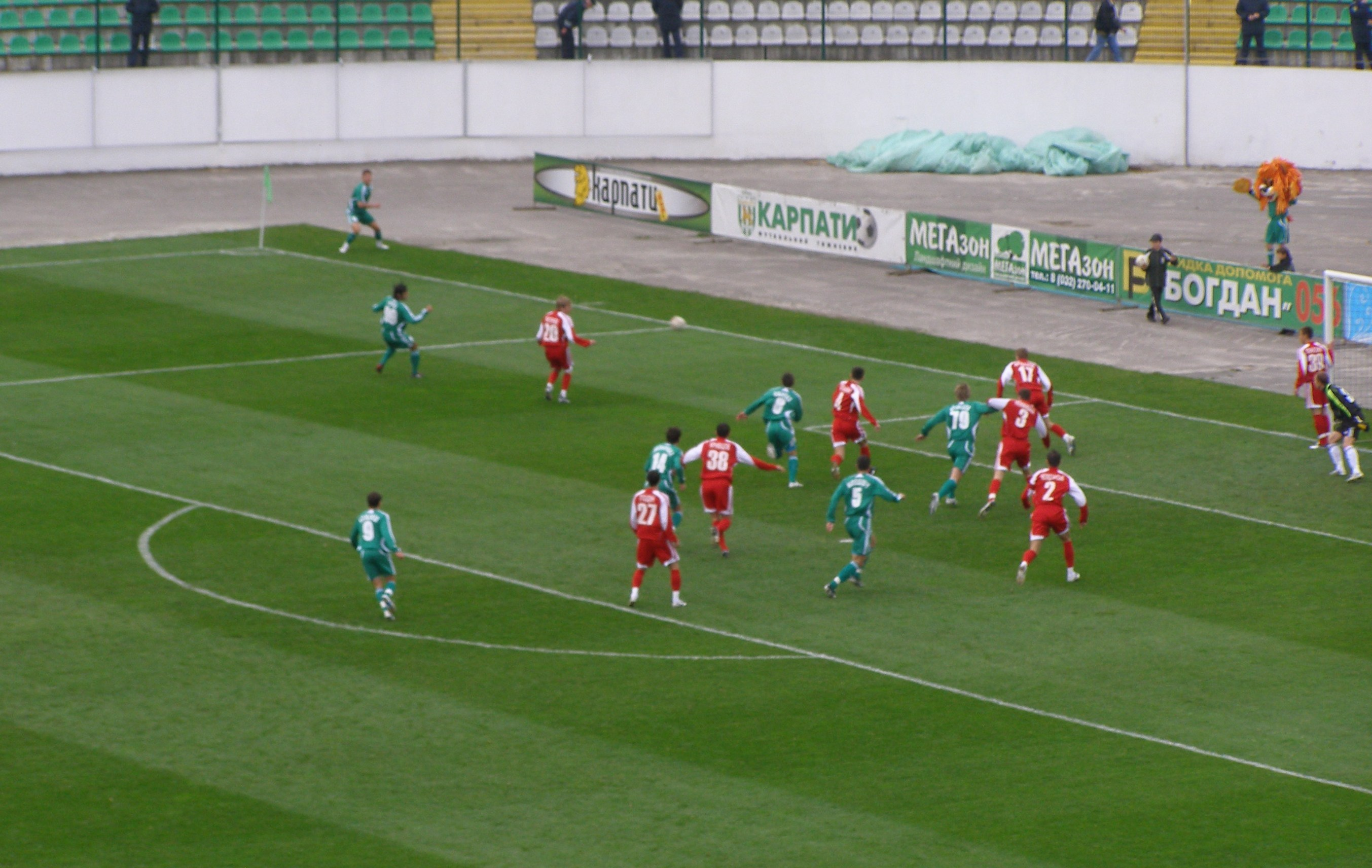 Karpaty Lviv host Metalurg Zaporizhya